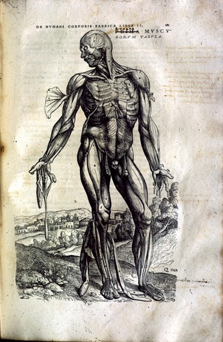 This is a picture taken from the online scans of Vesalius' book De humanis fabricas corpus, from the University of Oklahoma History of Science Collection records. It is an image of the muscular anatomy of a man.